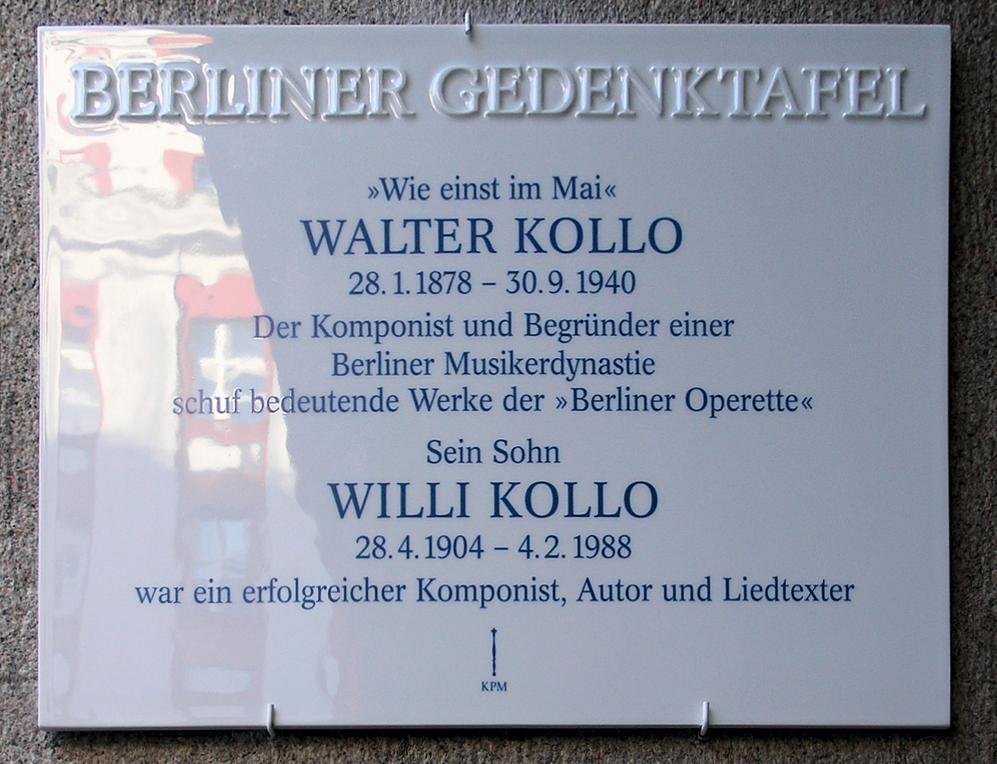 Berlin memorial plaque, Walter Kollo and Willi Kollo, Friedrichstraße 101, Berlin-Mitte, Germany